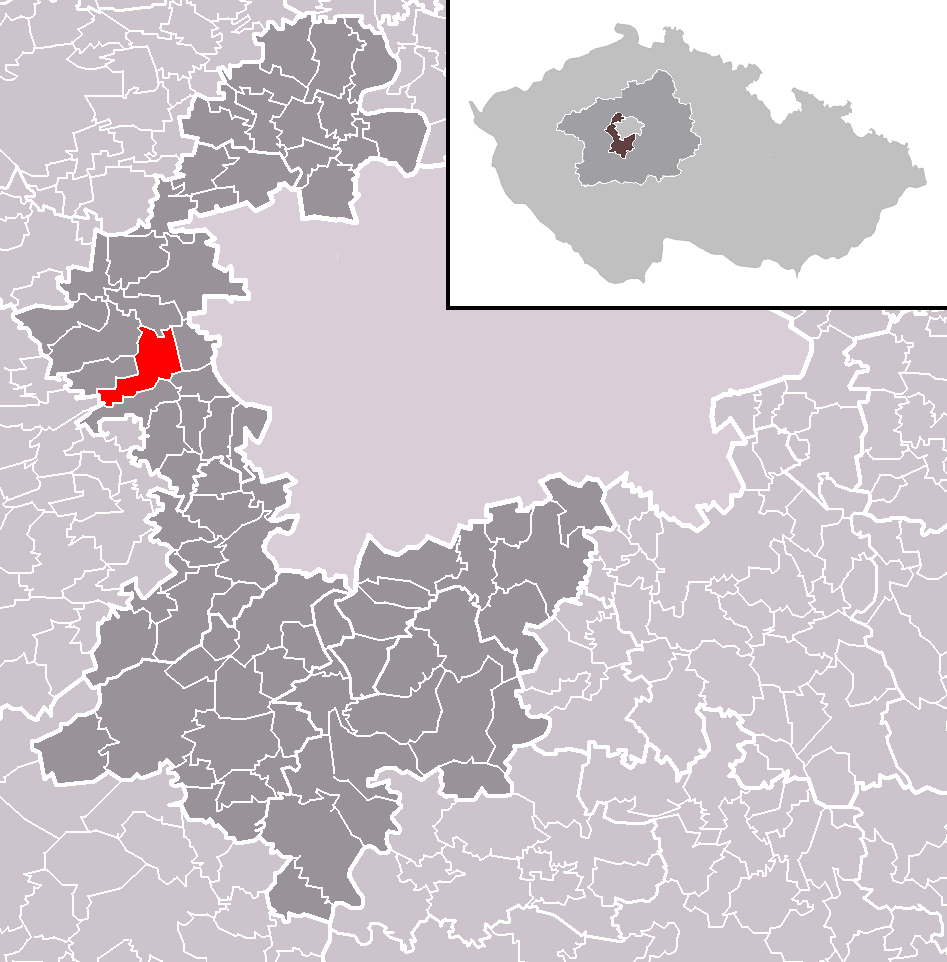 Location of Rudná town within Prague-West District and administrative area of Černošice as a Municipality with Extended Competence.